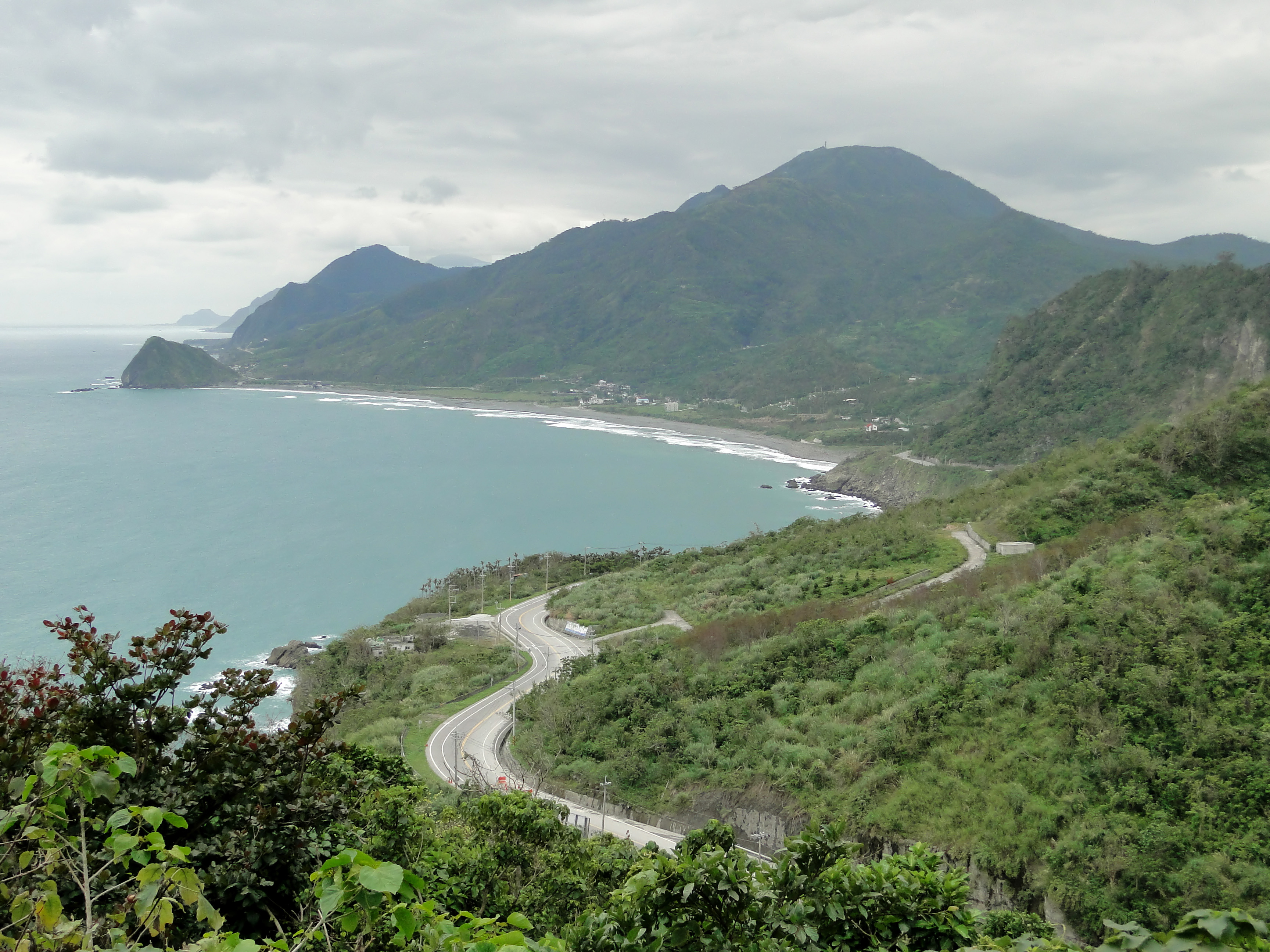 Jici Beach in Baci, Hualien County, Taiwan